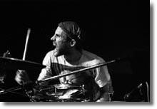 Bill "Virus X" Richman, drummer for Articles of Faith, 1992.